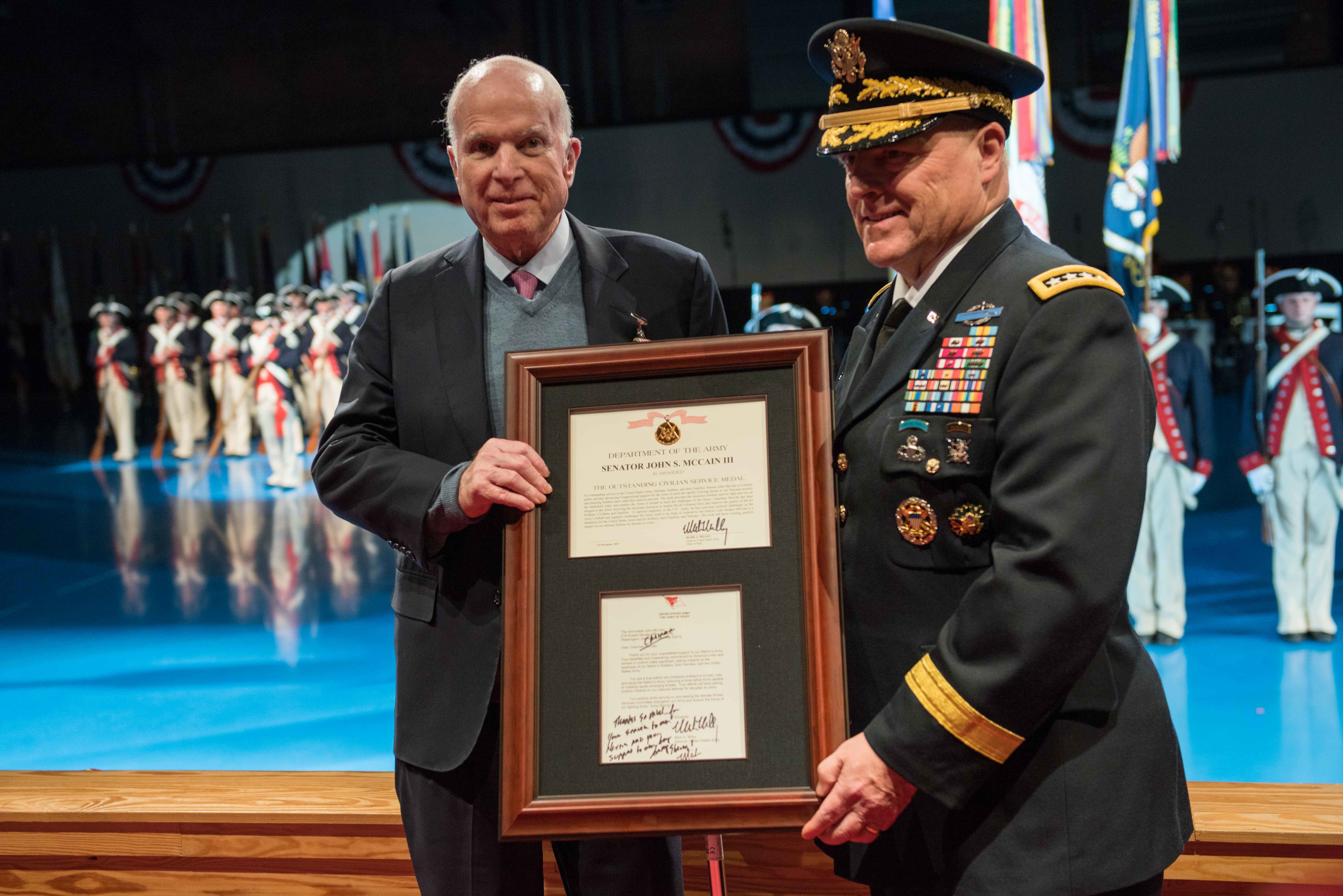 Gen. Mark A. Milley, 39th Chief of Staff of the Army, hosts a special Twilight Tattoo performance to recognize Senator John S. McCain III, for his over 63 years of dedicated service to the Nation and the U.S. Military in Conmy Hall, Joint Base Myer-Henderson Hall, Va., Nov. 14, 2017. Senator McCain was awarded the Outstanding Civilian Service Medal for his exceptional voluntary contributions to the United States Army and Military.